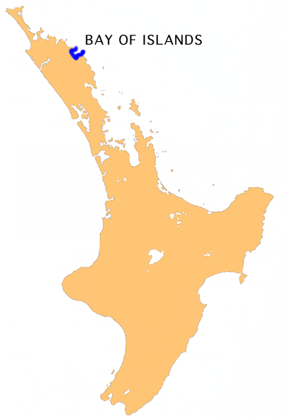 Location map of Bay of Islands, New Zealand